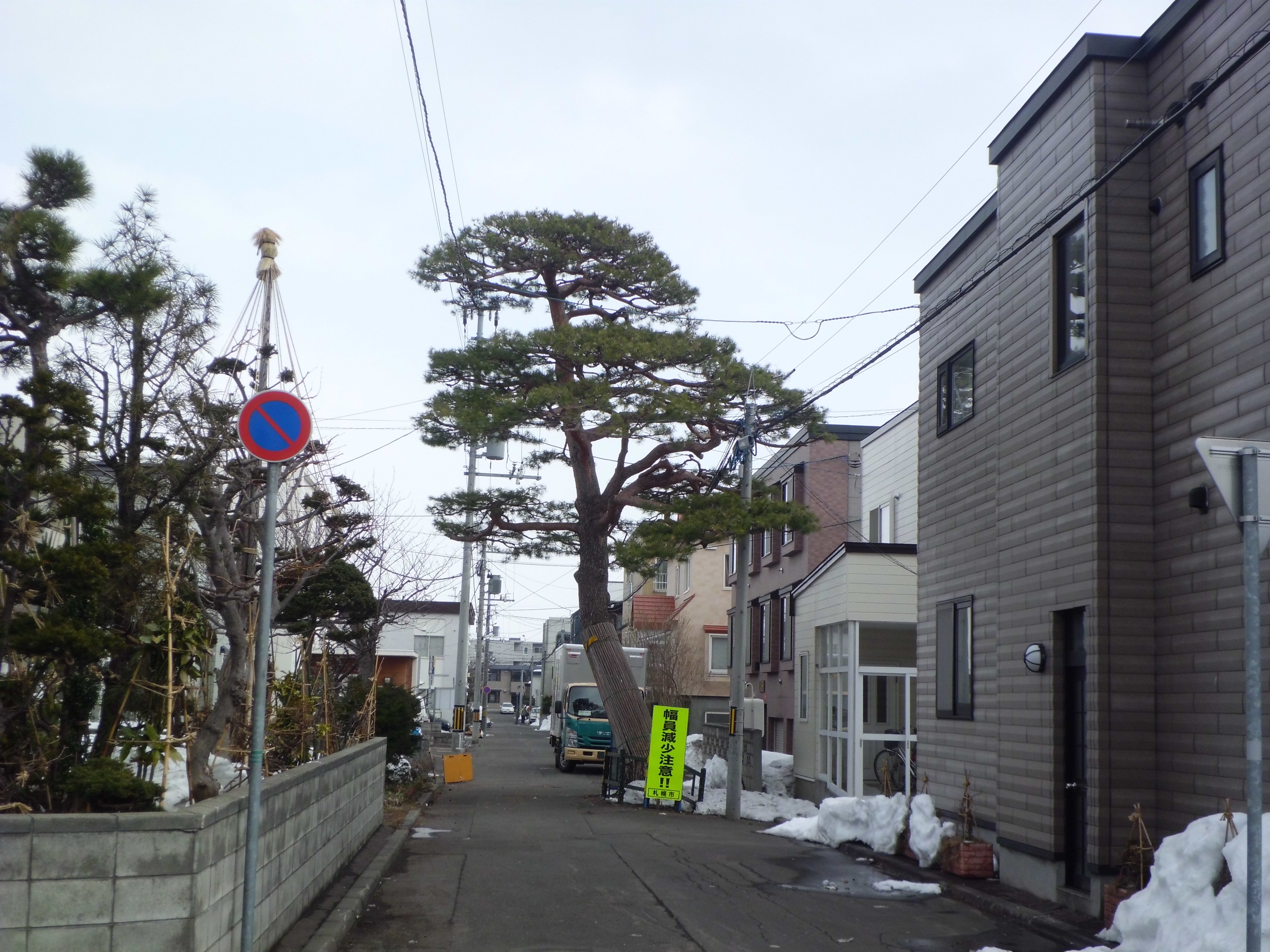 Red pine tree as traces of Teikoku Seima Kotoni Factory in Kita-ku, Sapporo.